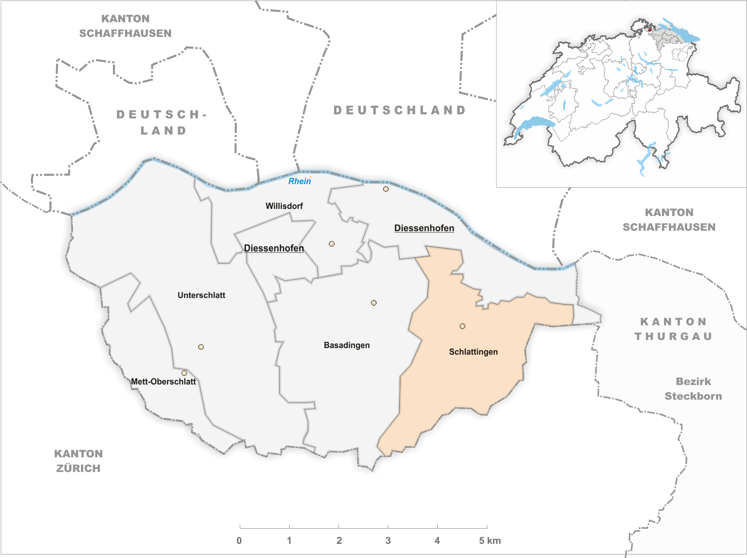 Municipality Schlattingen